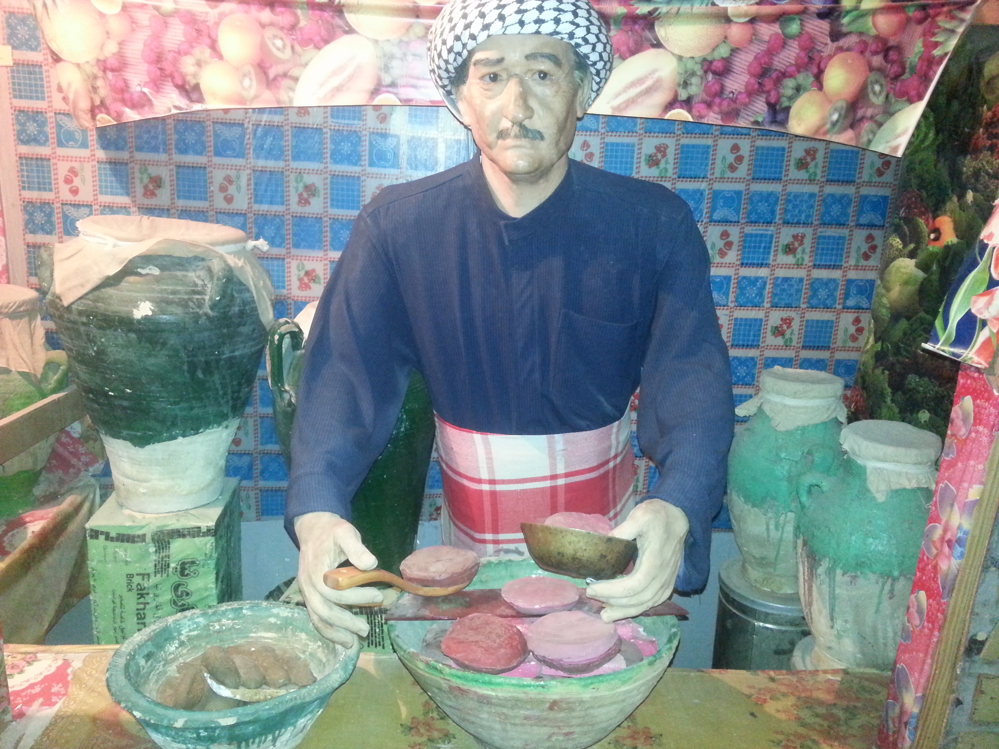 Photos from the Al Baghdadi Museum-Vendor Trchi